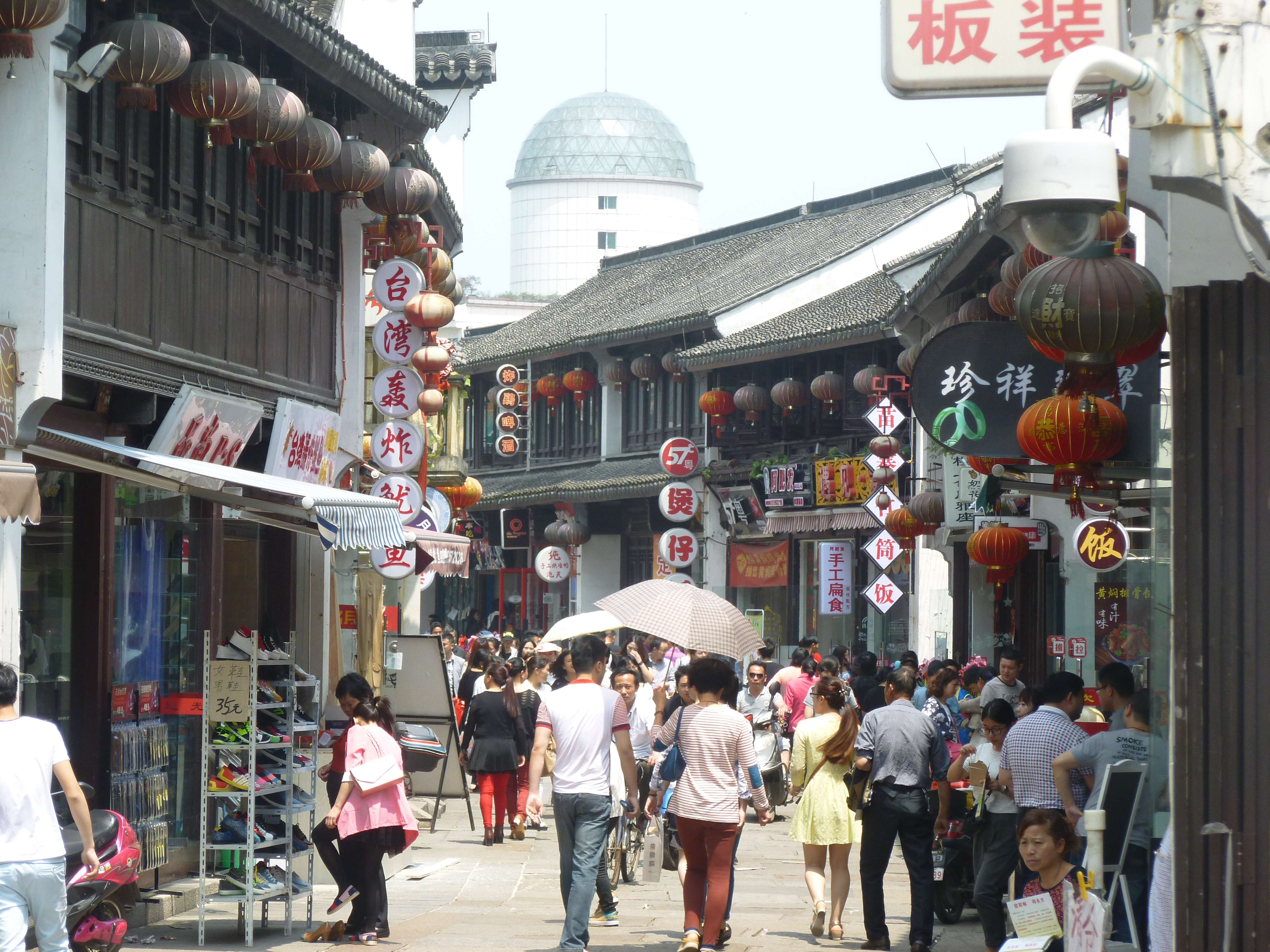 Re-built "old Huzhou" trading center for fabrics, Huzhou, Zhejiang province, China